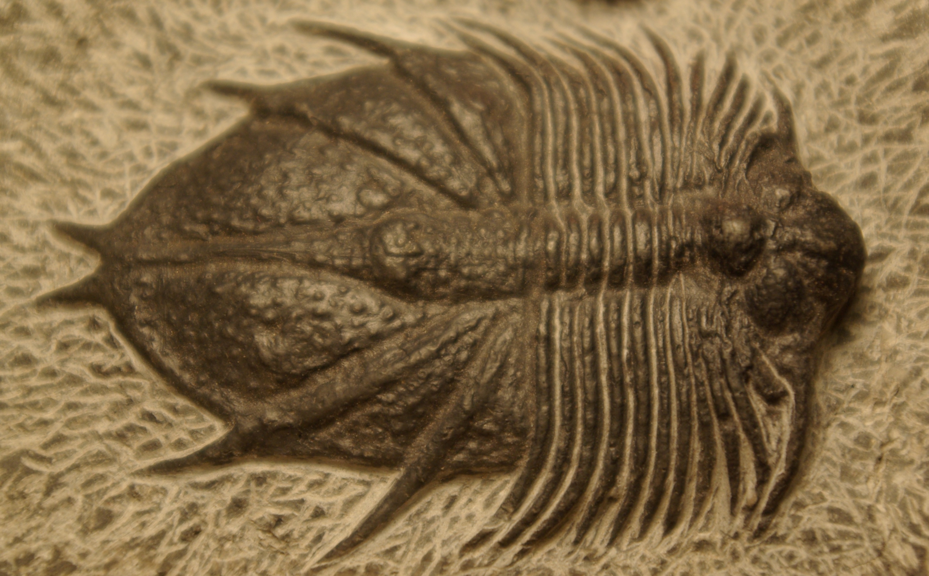 Fake Acanthopyge sp.